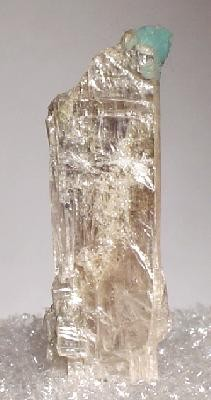 Stranskiite, Leiteite Locality: Tsumeb Mine (Tsumcorp Mine), Tsumeb, Otjikoto (Oshikoto) Region, Namibia (Locality at ) Size: 2.4 x 0.9 x 0.5 cm. An extremely fine DOUBLE RARITY thumbnail from Tsumeb. A cyan-blue crust of microcrystalline stranskiite is jauntily perched atop a translucent, pearlescent, silky leiteite. Stranskiite and leiteite are ULTRA RARE zinc arsenates and Tsumeb is the Type Locality for both species.